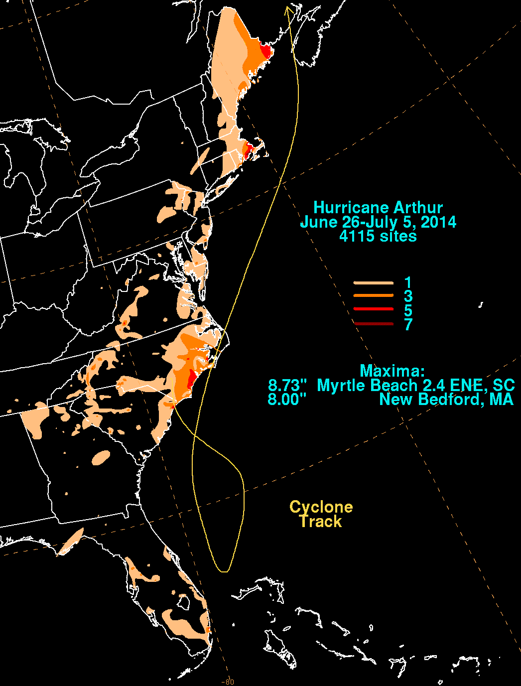 A convective system moving across the northwest Gulf of Mexico sent a mid- level shortwave through the southeast United States. As the shortwave interacted with a frontal zone across the Carolinas, a surface low formed on June 27. The low moved southeast into the Atlantic, though its convection was minimal towards the end of June. On June 30, the low had a well-defined circulation. Late in the day, convection became better organized and the system became a tropical depression that night. Development continued, with Arthur becoming a tropical storm during the morning of July 1 while looping offshore Florida. On July 2, Arthur moved north in the direction of the Carolinas. Hurricane status was acheived early on July 3. Arthur turned north-northeast as an upper-level trough deepened across the East. Becoming a category two hurricane, Arthur moved ashore eastern North Carolina late on July 4 with a well-defined eye. The cyclone weakened after moving back into the Atlantic, with its eye becoming obscured on July 5 while moving south of New England. Vertical wind shear became an increasing issue, with Arthur evolving into an extratropical low on July 7.